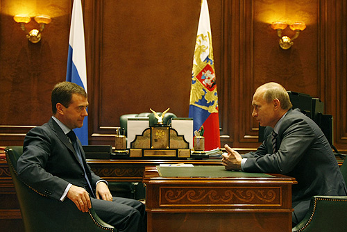 GORKI, MOSCOW REGION. With Prime Minister Vladimir Putin.